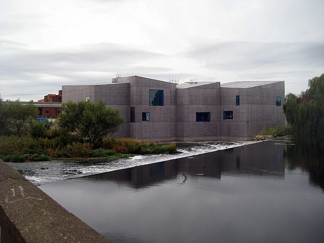 The Hepworth Wakefield, near to Wakefield, Great Britain. Designed by award-winning British architect, David Chipperfield, The Hepworth Wakefield will show for the first time a unique collection of sculptures by Barbara Hepworth � one of the most important sculptors of the 20th Century, who was born and raised in Wakefield. Its bold, modern architecture will be a fitting home for an outstanding collection of British art, featuring work by some of the UK�s best-known artists. As one of the largest and finest galleries outside of London, The Hepworth Wakefield will bring international contemporary art and historical exhibitions to Yorkshire. Opening in 2011.